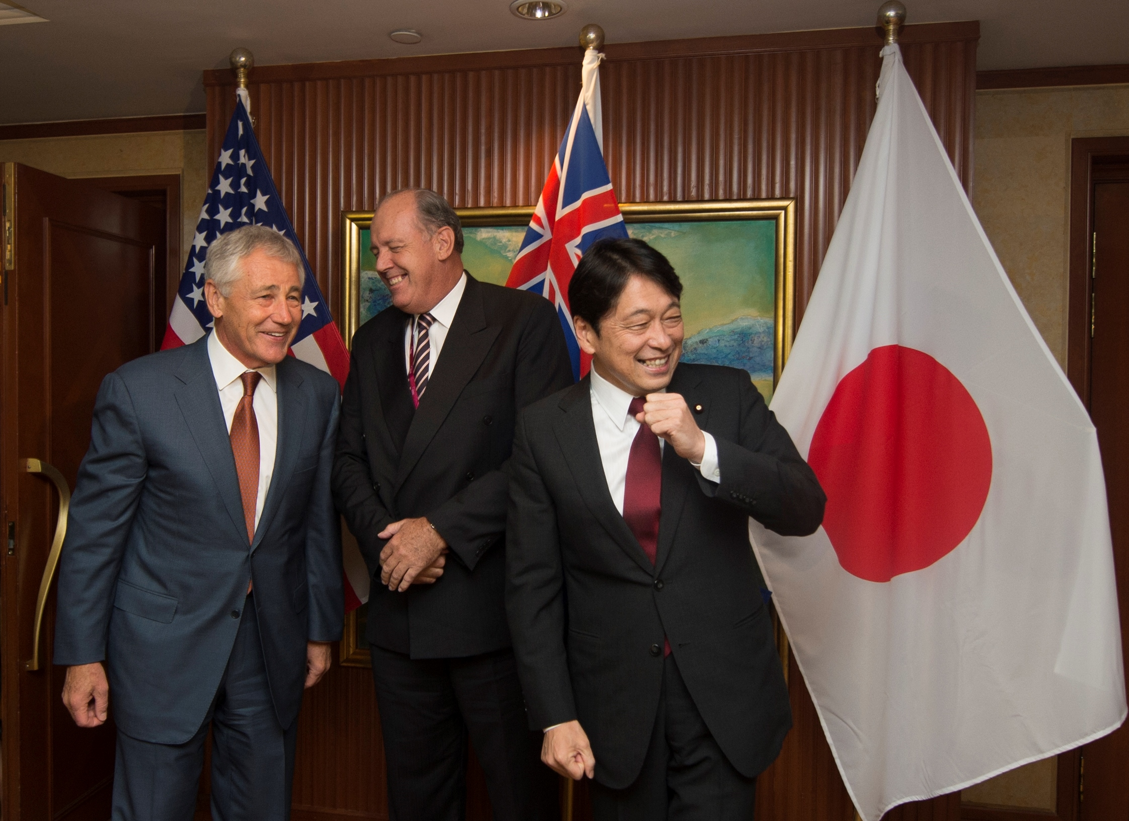 Secretary of Defense Chuck Hagel shares a laugh with Japanese Minister of Defense Onodera Itsunori and Australian MInister of Defense David Johnston before their trilateral meeting at the Shangri La Hotel in Singapore May 30, 2014.